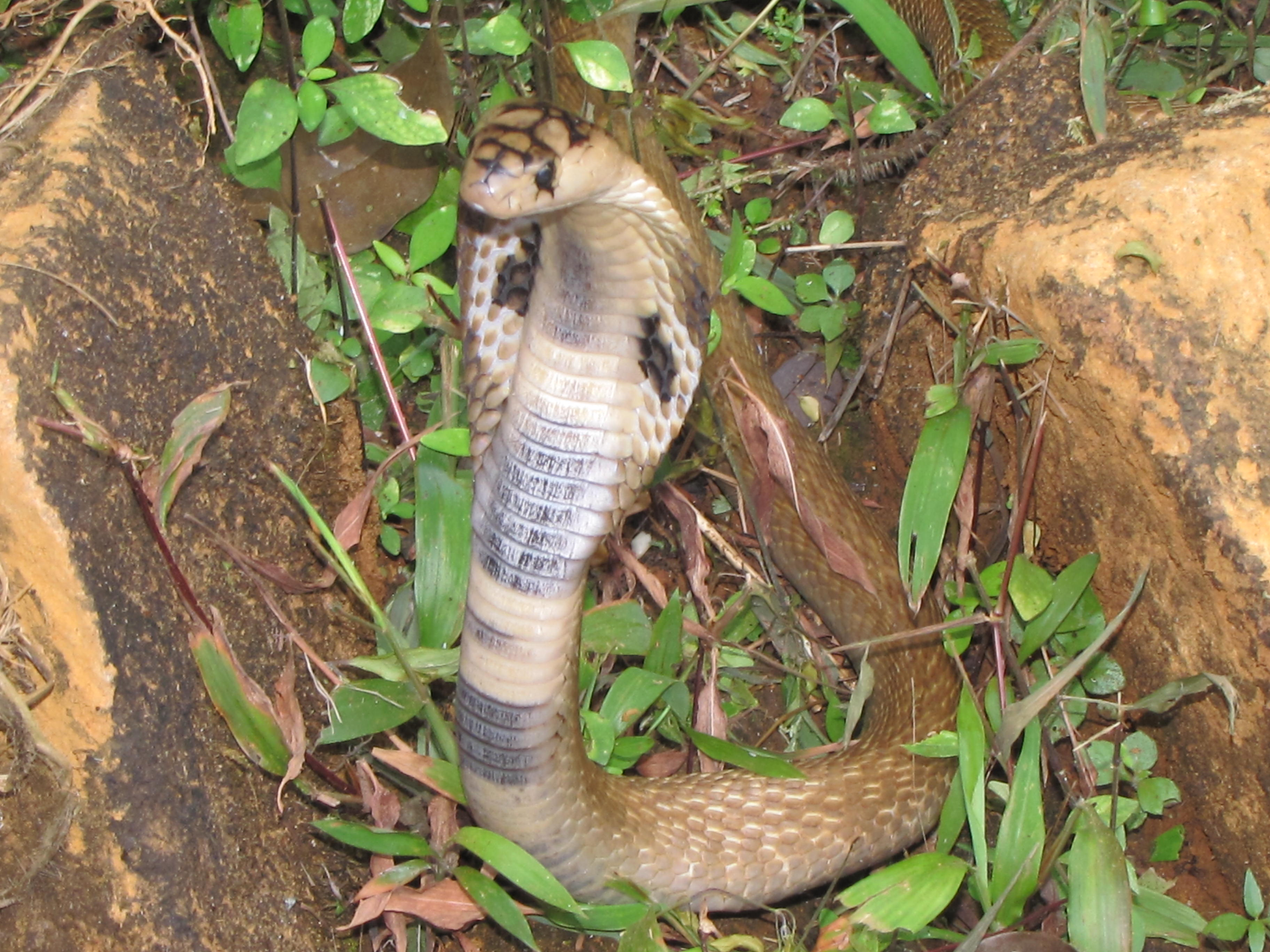 Naja naja